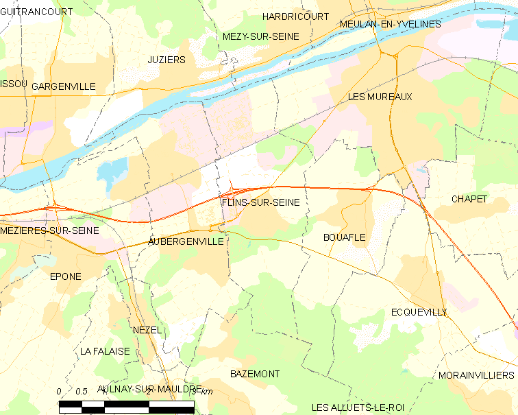 Map of French municipality Flins-sur-Seine